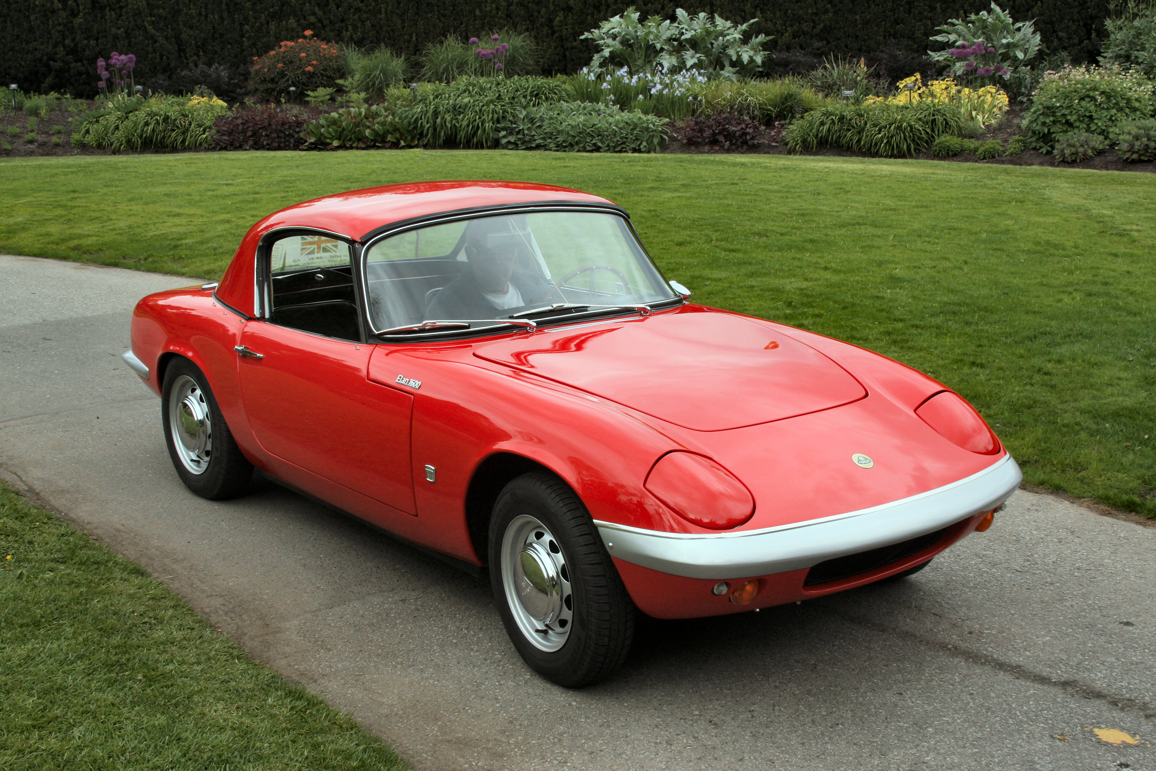 One of my favorite cars of all time - the beautiful Lotus Elan.